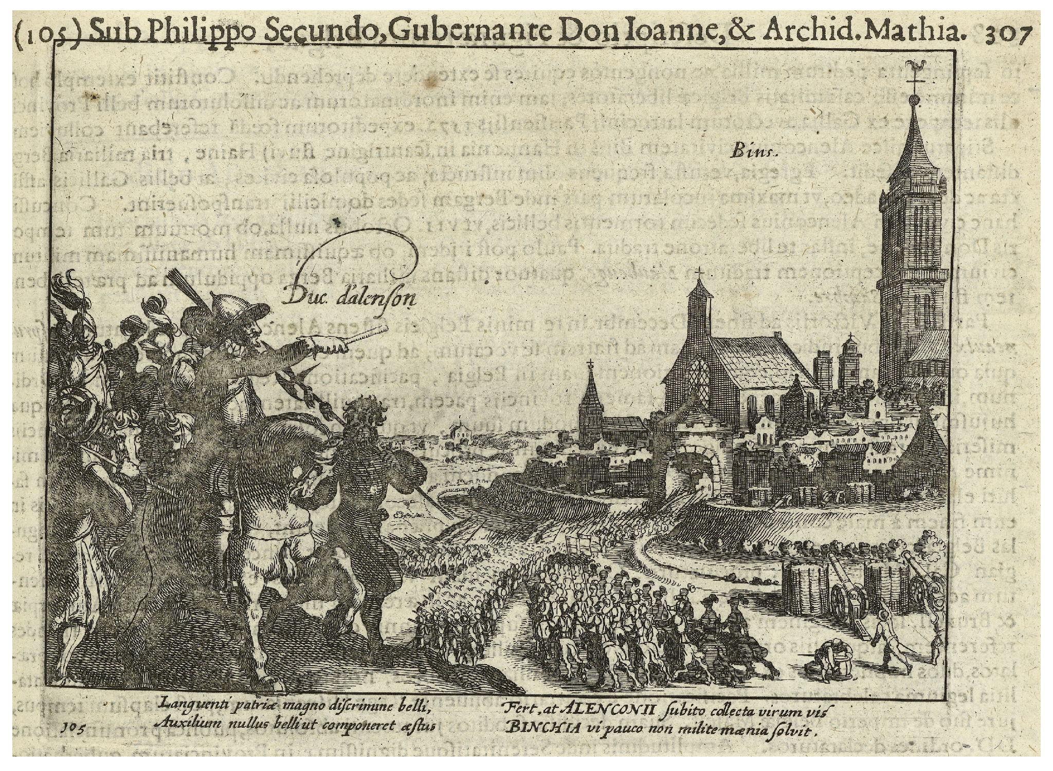 After a siege Binche surrendering to the duke of Anjou, 7 october 1578